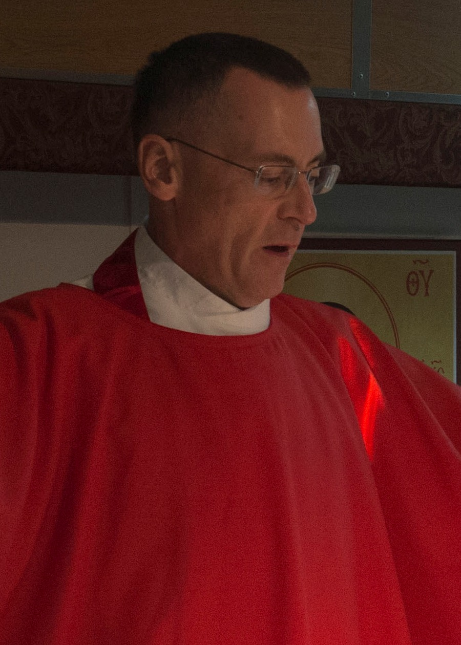 U.S. Navy Cmdr. William Muhm prepares for Holy Communion during a Roman Catholic service aboard the amphibious assault ship USS Bonhomme Richard (LHD 6) Aug. 9, 2013, in the Coral Sea. The Bonhomme Richard Amphibious Ready Group, with the embarked 31st Marine Expeditionary Unit, participated in a certification exercise in the U.S. 7th Fleet area of responsibility. (U.S. Navy photo by Mass Communication Specialist 1st Class Joshua Hammond/Released)